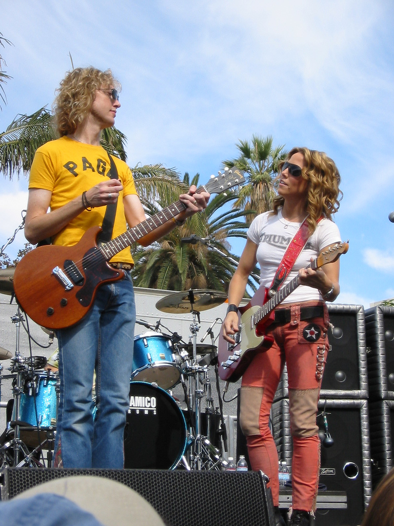 Sheryl Crow - The Grove, Los Angeles, California. Sheryl Crow at The Grove on November 3, 2002 in Los Angeles, with co-guitarist Peter Stroud. (Not The Grove of Orange/Anaheim. Corrected by SoCal Choppas aka Ryan Tom.)